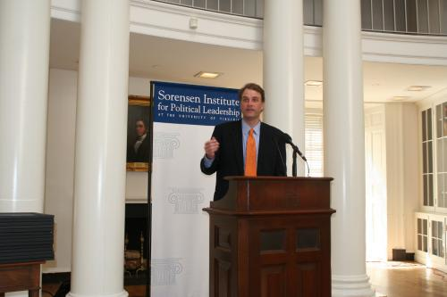 Robert Hurt giving the graduation address for the College Leaders Program Class of 2009.[1] The College Leaders Program is offered by the Sorensen Institute for Political Leadership and is held each summer at the University of Virginia in Charlottesville.[2]